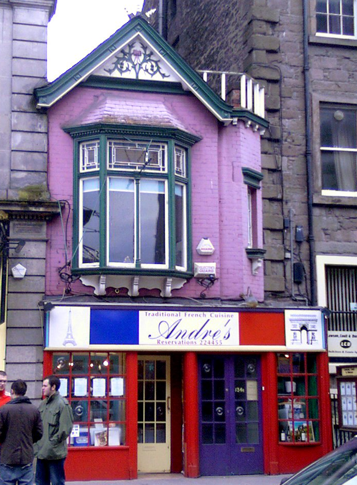 The original DMA Design offices, pictured here in 2005